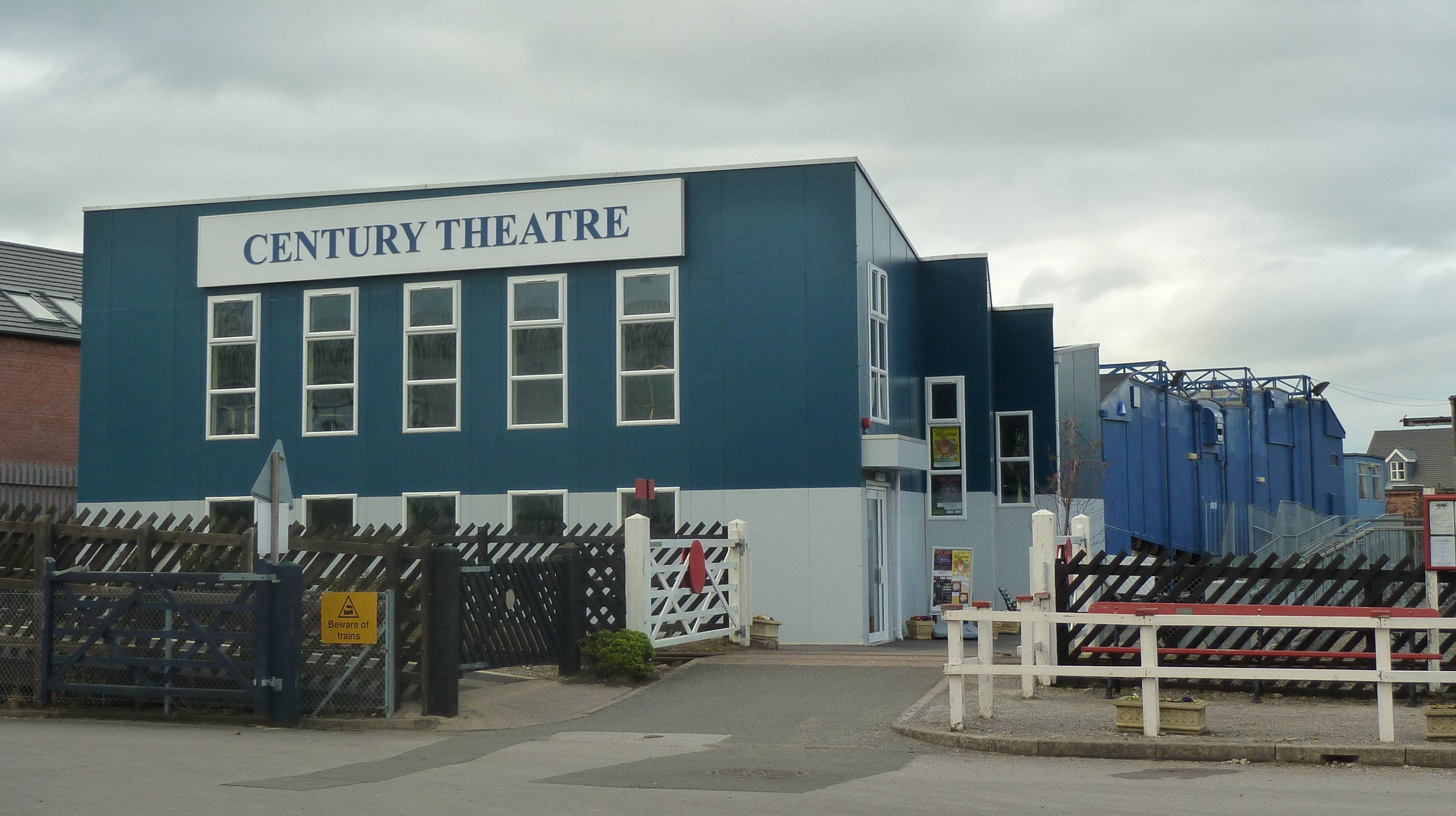 The new facade of the trailer-based and once-mobile Century Theatre.